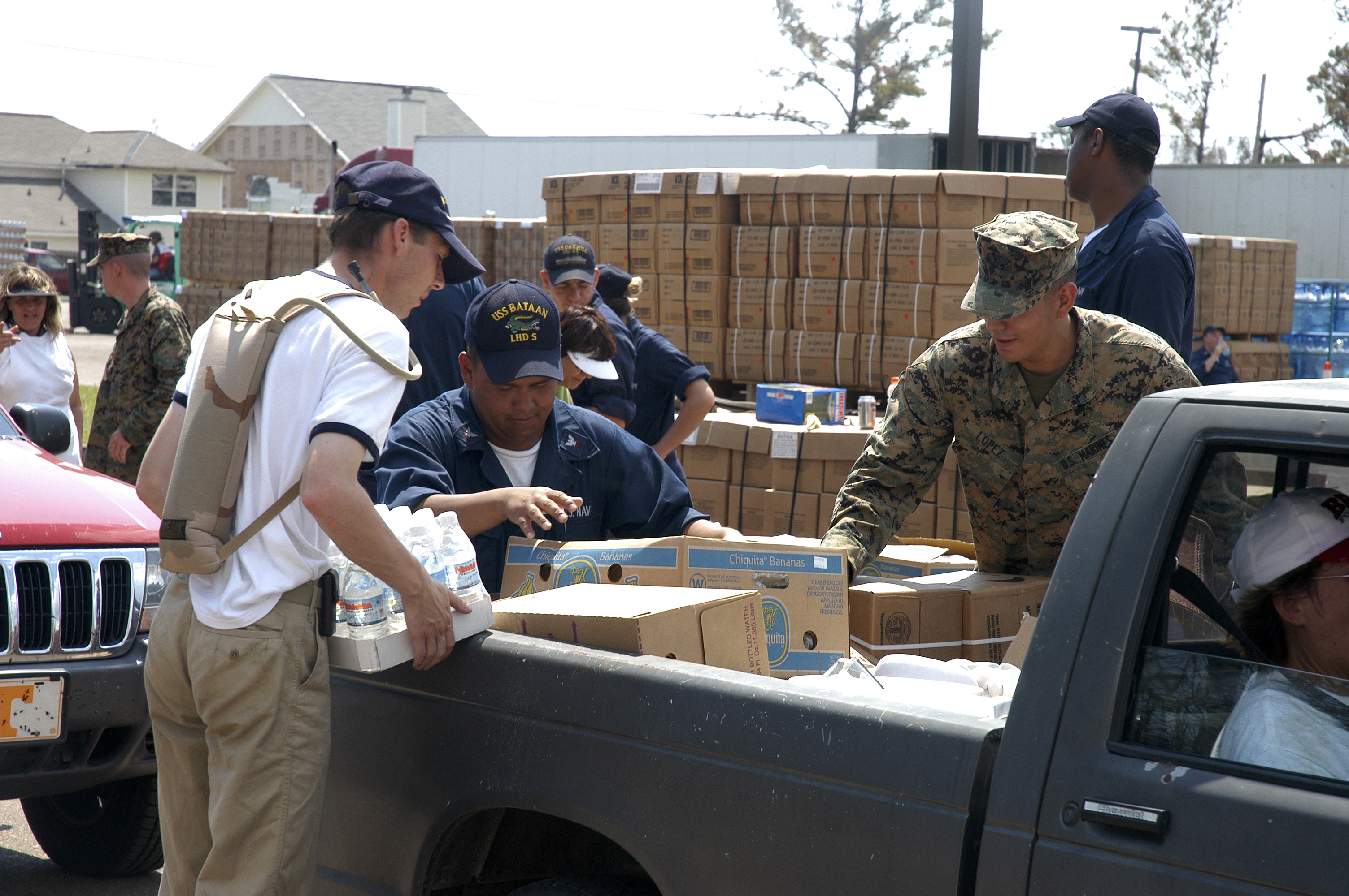 D'Iberville, Miss. (Sept. 8, 2005) – U.S. Navy Sailors assigned to the amphibious assault ship USS Bataan (LHD 5), Dutch Sailors from frigate Van Amstel (F 831) and U.S. Marines load cases of bottled water and Meals Ready-to-Eat (MRE) into the bed of a pickup truck at the First Baptist Church near D'Iberville, Miss. The Navy's involvement in the Hurricane Katrina humanitarian assistance operations is led by the Federal Emergency Management Agency (FEMA), in conjunction with the Department of Defense. U.S. Navy photo by Photographer’s Mate Airman Jeremy L. Grisham (RELEASED)